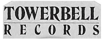 Towerbell Records Logo